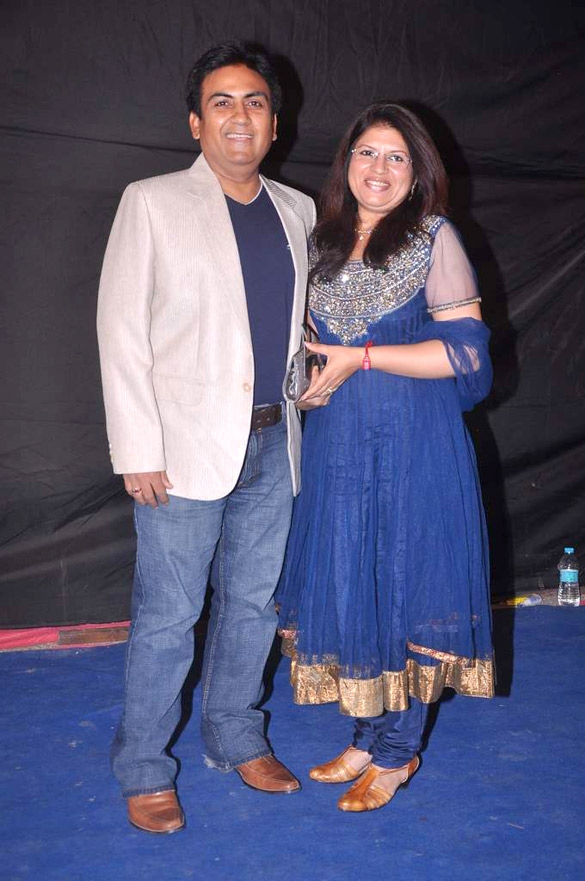 colors indian telly awards